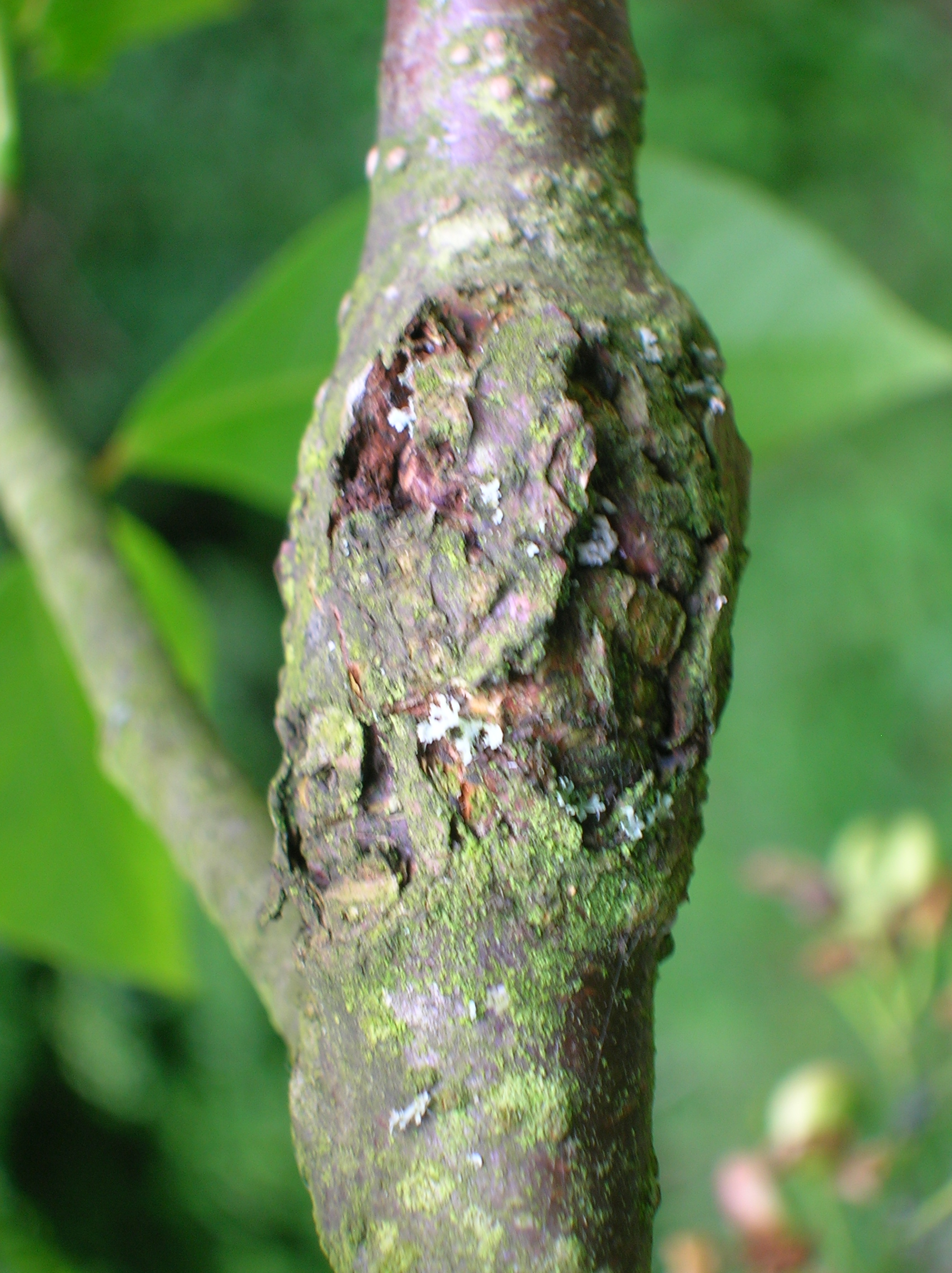 Prunus padus showing stem malformation possibly caused by the fungus Taphrina padi. Dalgarven Mill, North Ayrshire, Scotland.